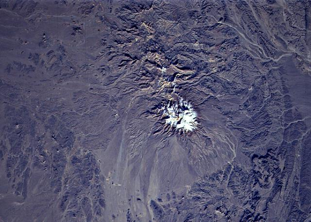 Taftan volcano in eastern Iran.